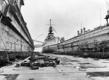 A British Danae-class light cruiser inside the Admiralty IX Floating Dry Dock at Singapore Naval Base, in September 1941. HMS Dragon (D46) and HMS Durban (D99) were based at Singapore at that time.